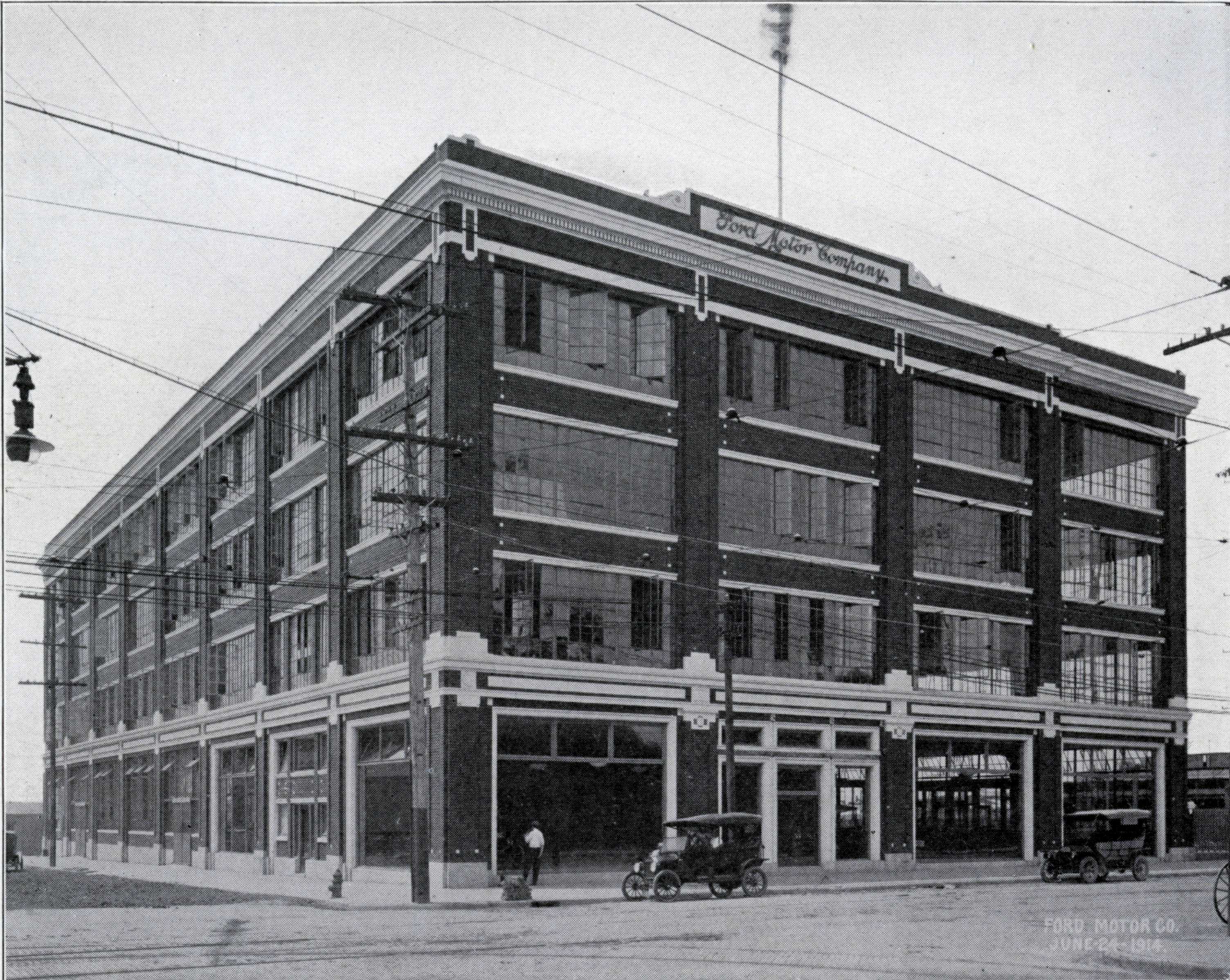 Photograph of the former Ford Assembly Plant located at 427 Cleveland Avenue in Columbus, Ohio. It is now the home of the Kroger Company's Columbus Bakery.